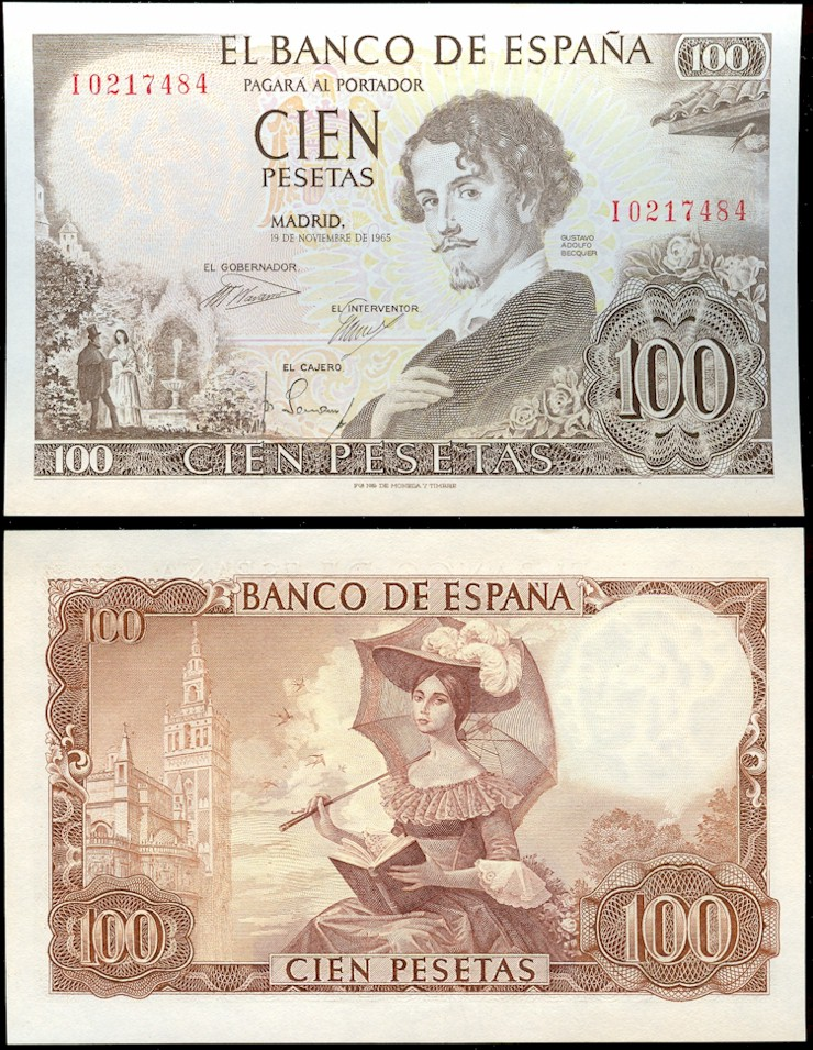 100 pesetas of Spain 1965. This note was printed by FNMT dated 1965, though issued in 1970. This note has a portrait of Spanish poet Gustavo Adolfo Becquer(1836-1870) which was painted by his brother Valeriano. The lovely miss on the reverse with the parasol is a subject of one of his works. This hote is P-150.